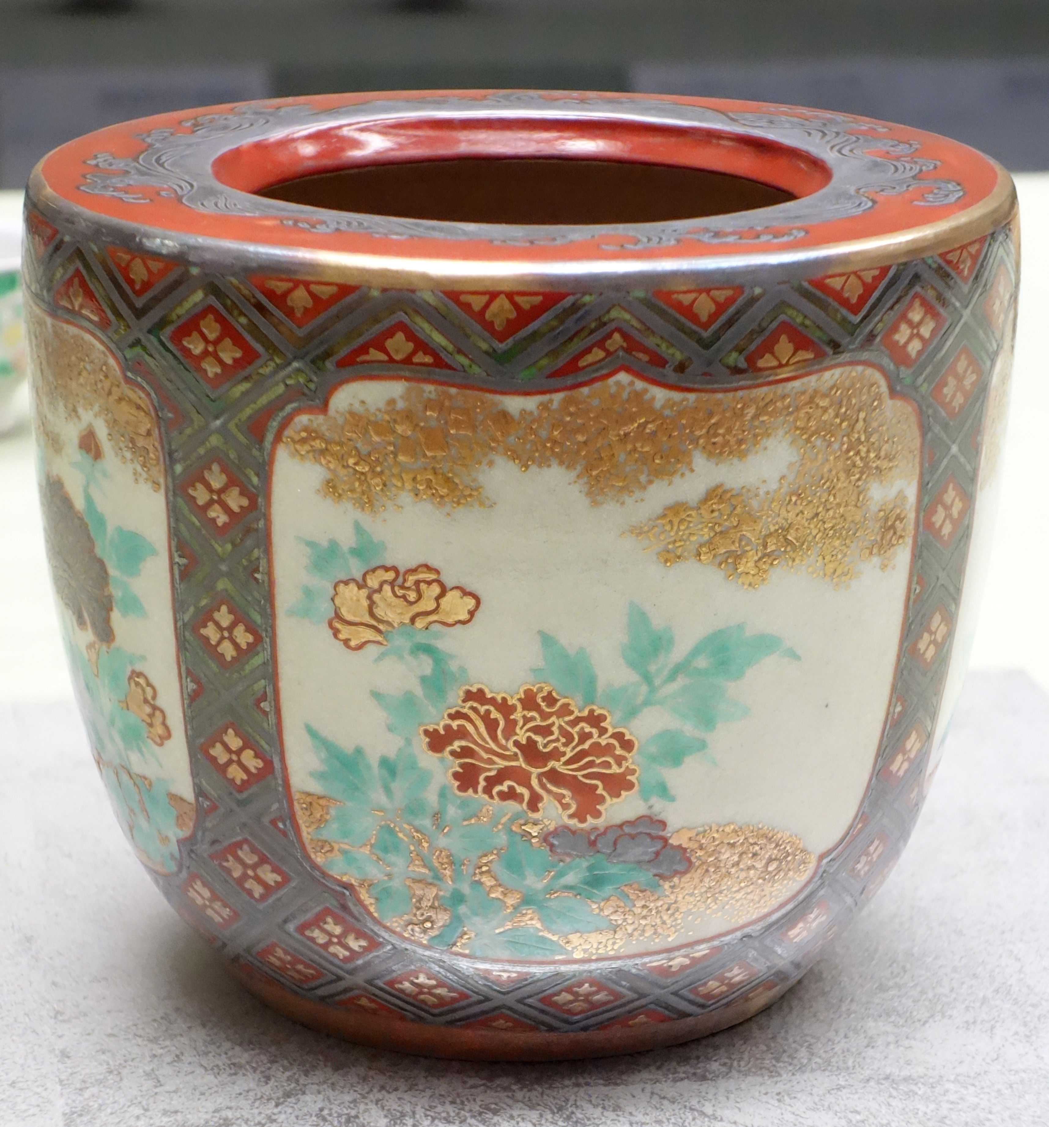 Water jar, peony design in overglaze enamel, studio of Nonomura Ninsei, Kyoto ware, Edo period, 17th century. Exhibit in the Tokyo National Museum, Tokyo, Japan. This artwork is old enough so that it is in the public domain.